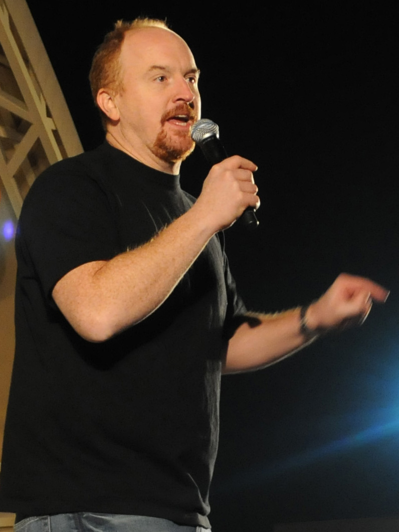 Comedian Louis C.K. performs for servicemembers at the Zone 6 Morale, Welfare and Recreation Stage during the Sergeant Major of the Army Hope and Freedom Tour 2008, Camp Arifjan Kuwait, Dec. 18, 2008.